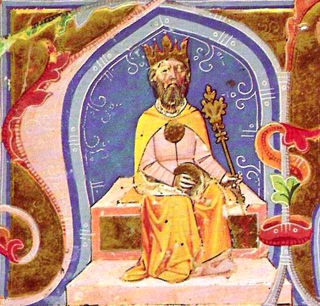 Image of Attila, enthroned